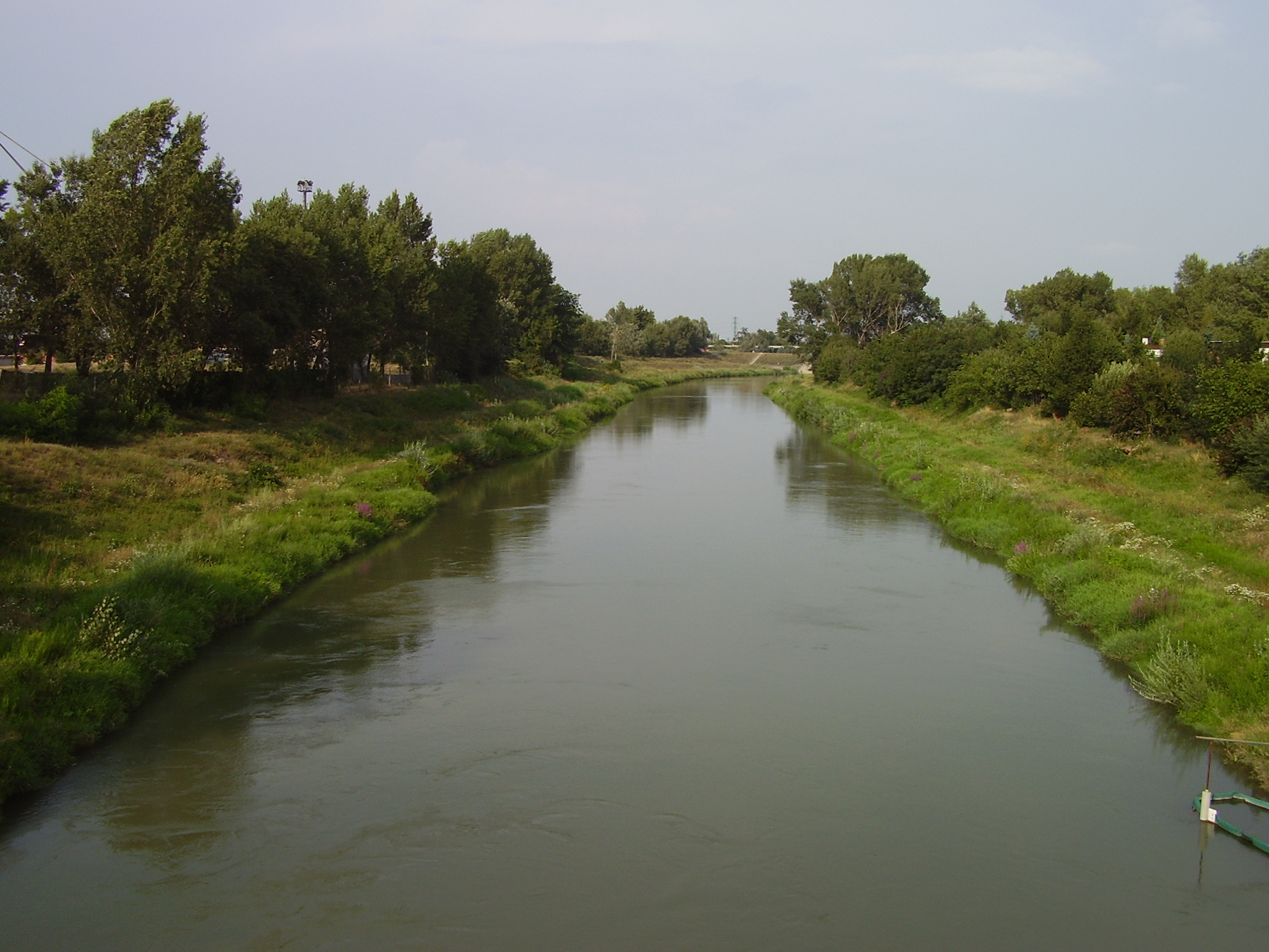 Bratislava and Danube